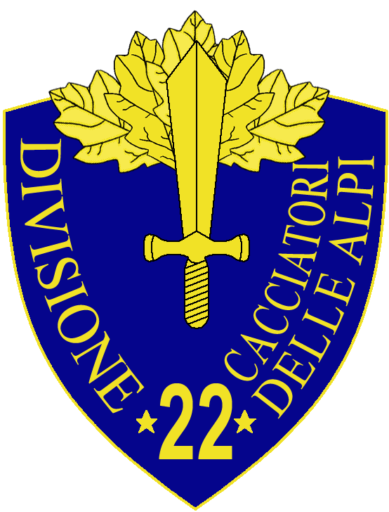 22a Divisione Fanteria Cacciatori delle Alpi insignia, Regio Esercito, Italy, WWII